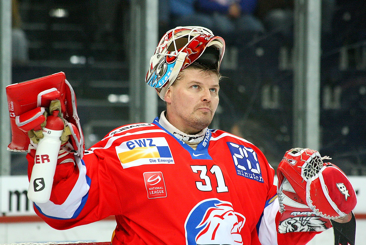 Ari Sulander avec le maillot des ZSC Lions.